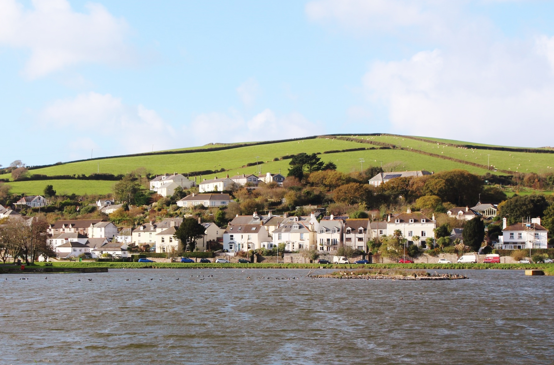 Millbrook Lake in autumn 2015